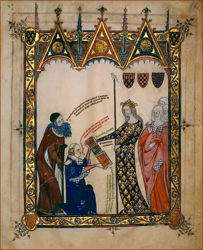 Raimundus Lullus, Thomas le Myésier: Electorium parvum seu breviculum (nach 1321) Manuscript in the Badische Landesbibliothek, Karlsruhe, Germany Cod. St. Peter perg 92, Blatt 12r